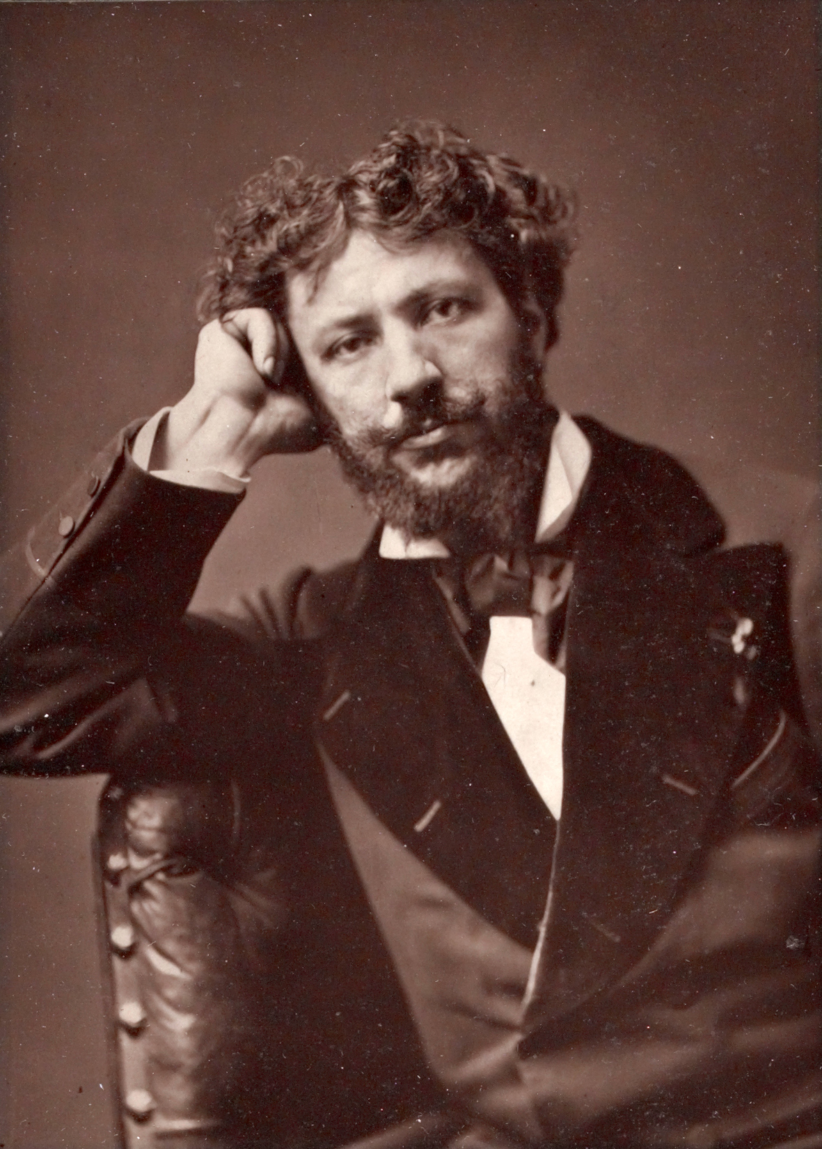 Carolus Duran [Charles Auguste Émile Duran (1837-1917)], Series: Galerie Contemporaine. Woodburytype photograph mounted on a page from the Galerie Contemporaine.